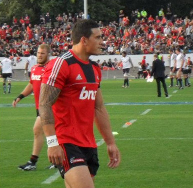 68 Sonny Bill Williams (Owen Franks in background). 2011 Super Rugby Crusaders vs Waratahs, round 3